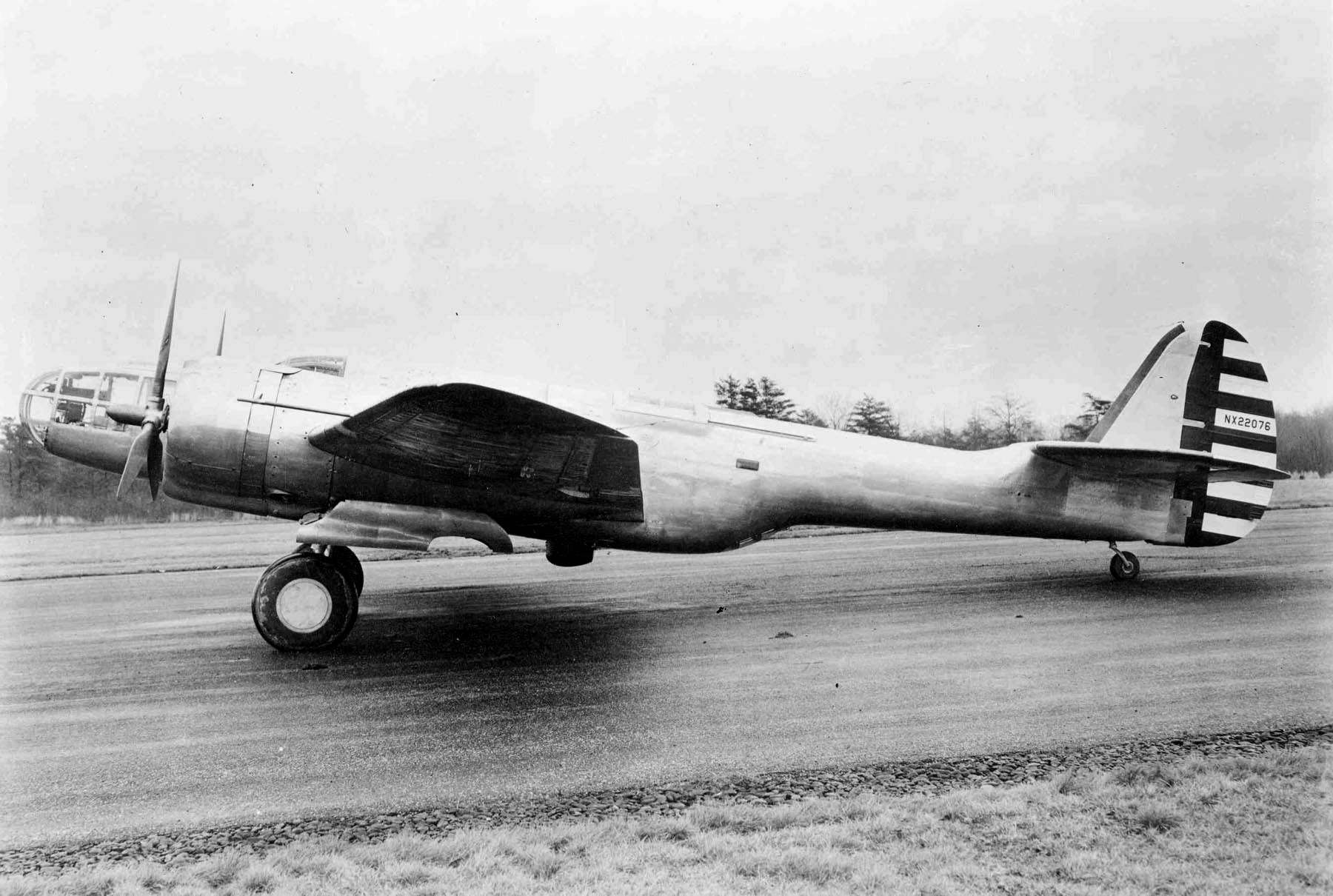 The Martin XA-22 prototype in 1939. Although losing the USAAF competition against the Douglas A-20, the type was ordered by the French government as the Martin 167F. After the fall of France in June 1940 the French orders were taken over by the British which used the type as the Martin Maryland Mk I.